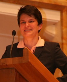 Tanja Gönner, Baden-Württemberg minister for the environment in Germany. Picture by Christoph Streckhardt, supplied to me by himself under the CC-BY-SA-2.0 license. Gönner, Tanja: CDU, Bundesrepublik Deutschland (GND 133291979)